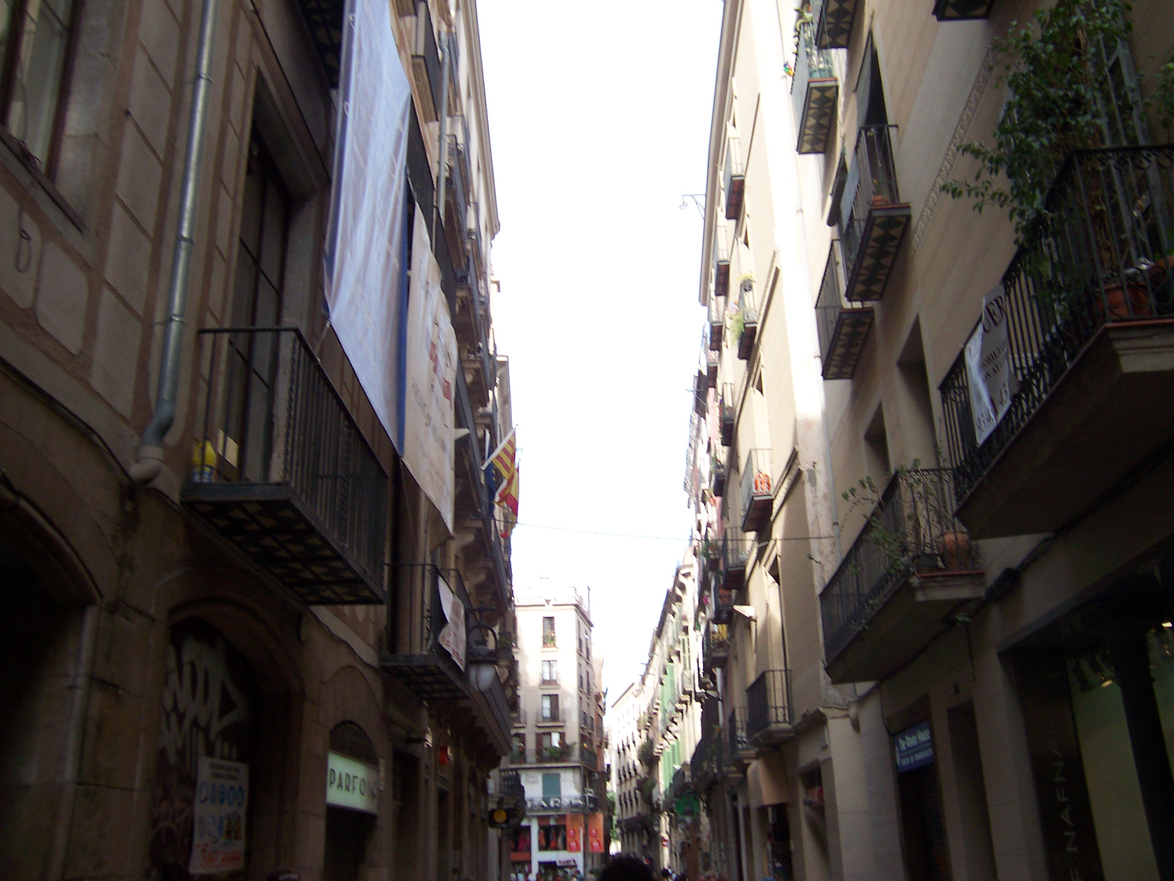 Portaferrisa Street, in Barcelona.